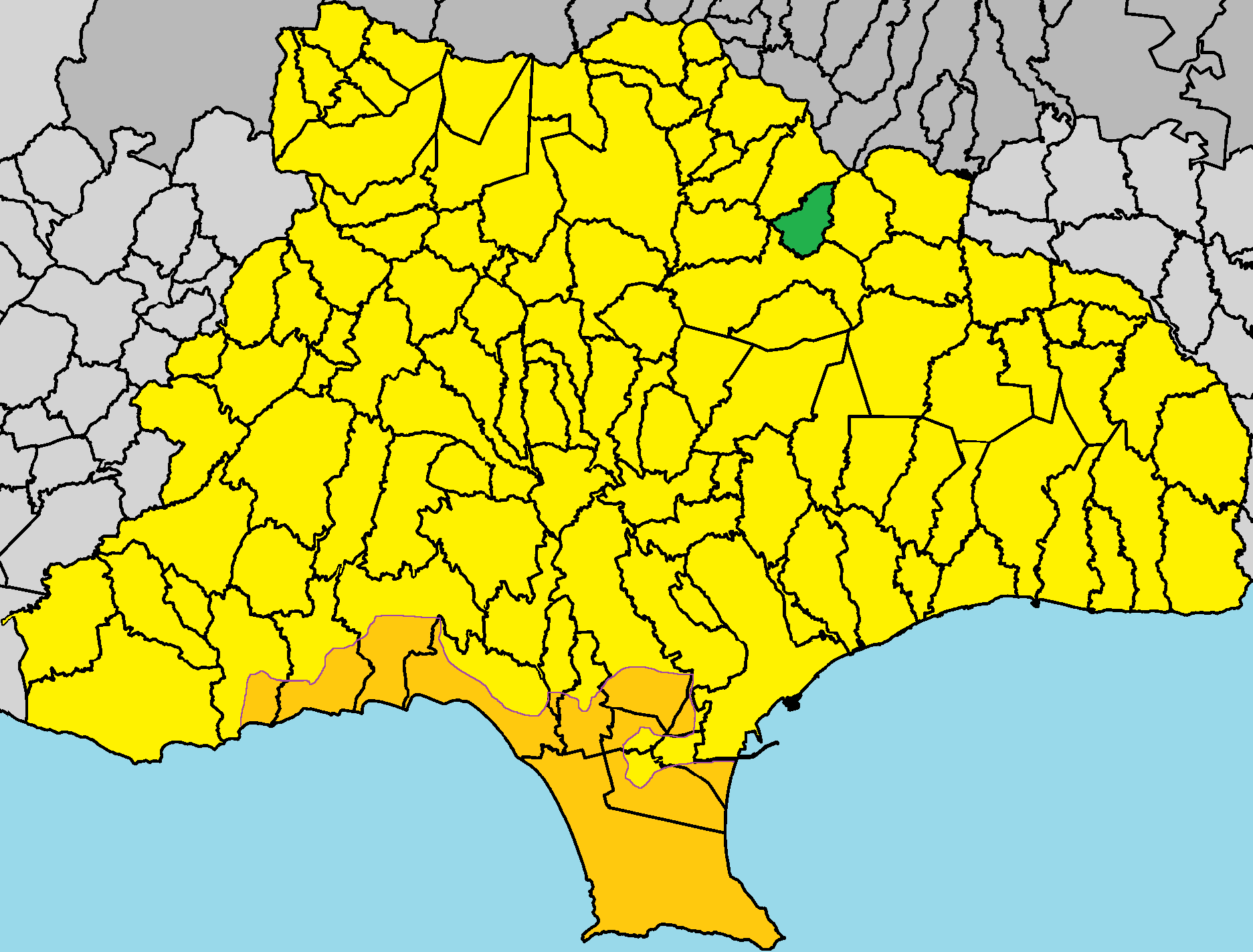 Agios Pavlos, Cyprus in Limassol District.